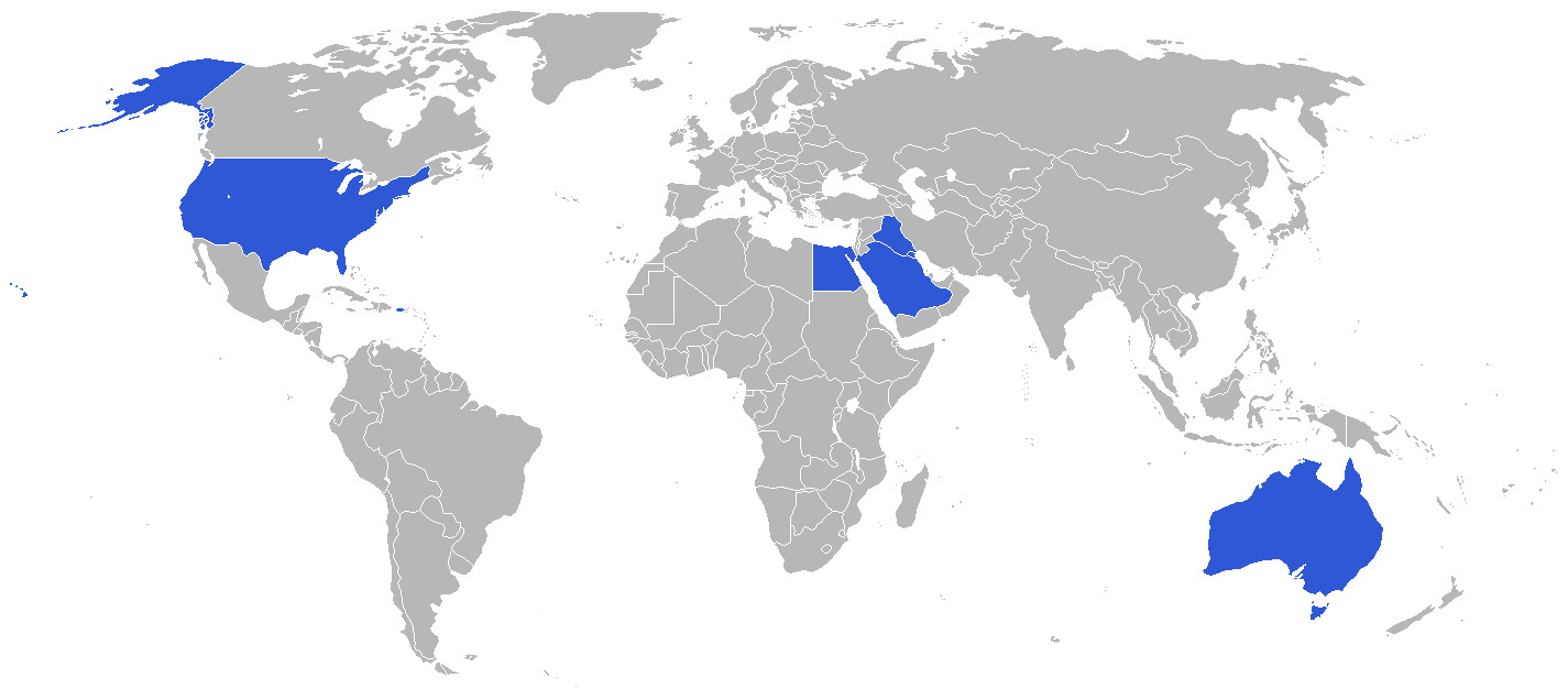 This map shows all of the operators of the M1 Abrams.